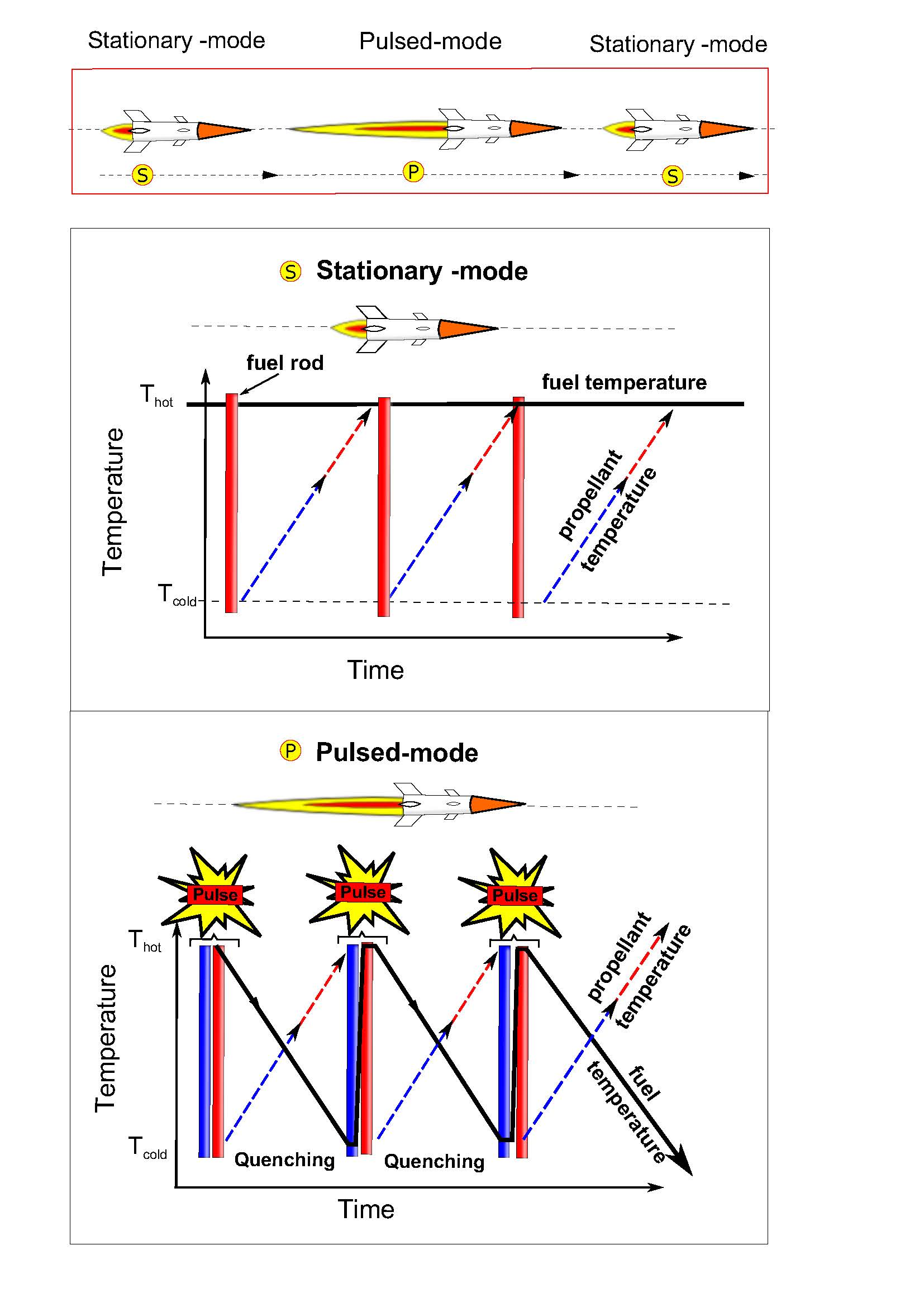 assa